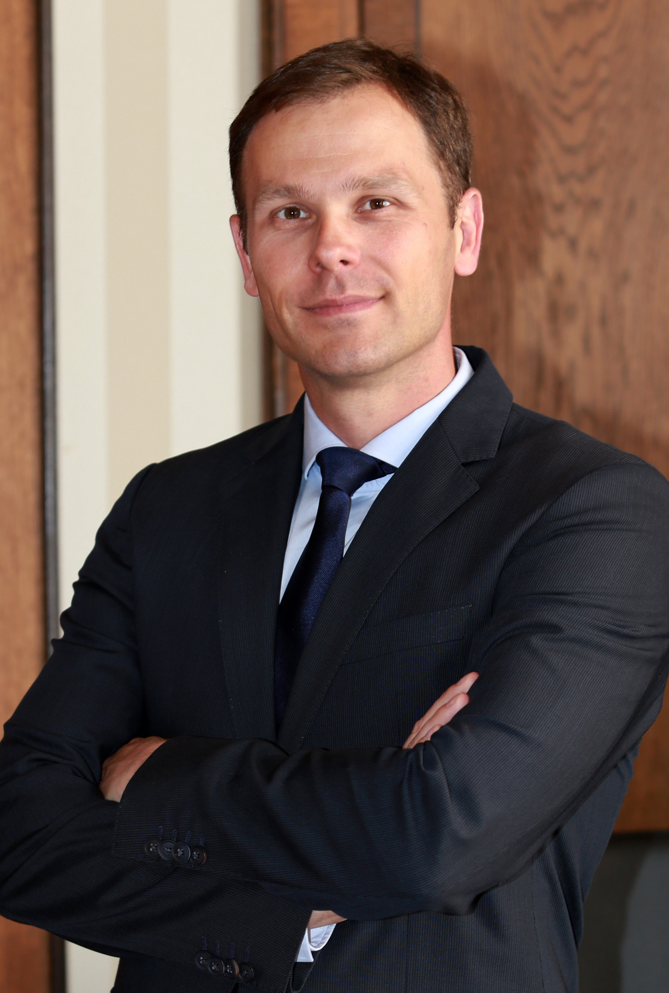 Photo of Serbian Minister of Finance; autor: Ministry of Finance